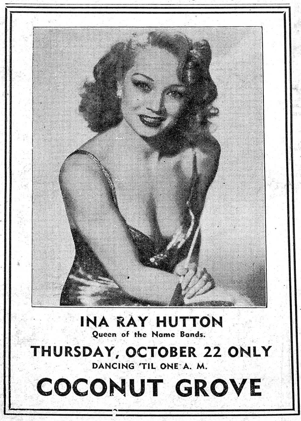 Advertisement for an Ina Ray Hutton, Bandleader, concert on October 22, 1942, that appeared in October 18, 1942, official newspaper for U.S. Army officers at Army Air Base, Salt Lake City, Utah.